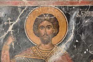 Saint Eustace Placidus from Assumption Monestery in Divrovouni 1603-1604